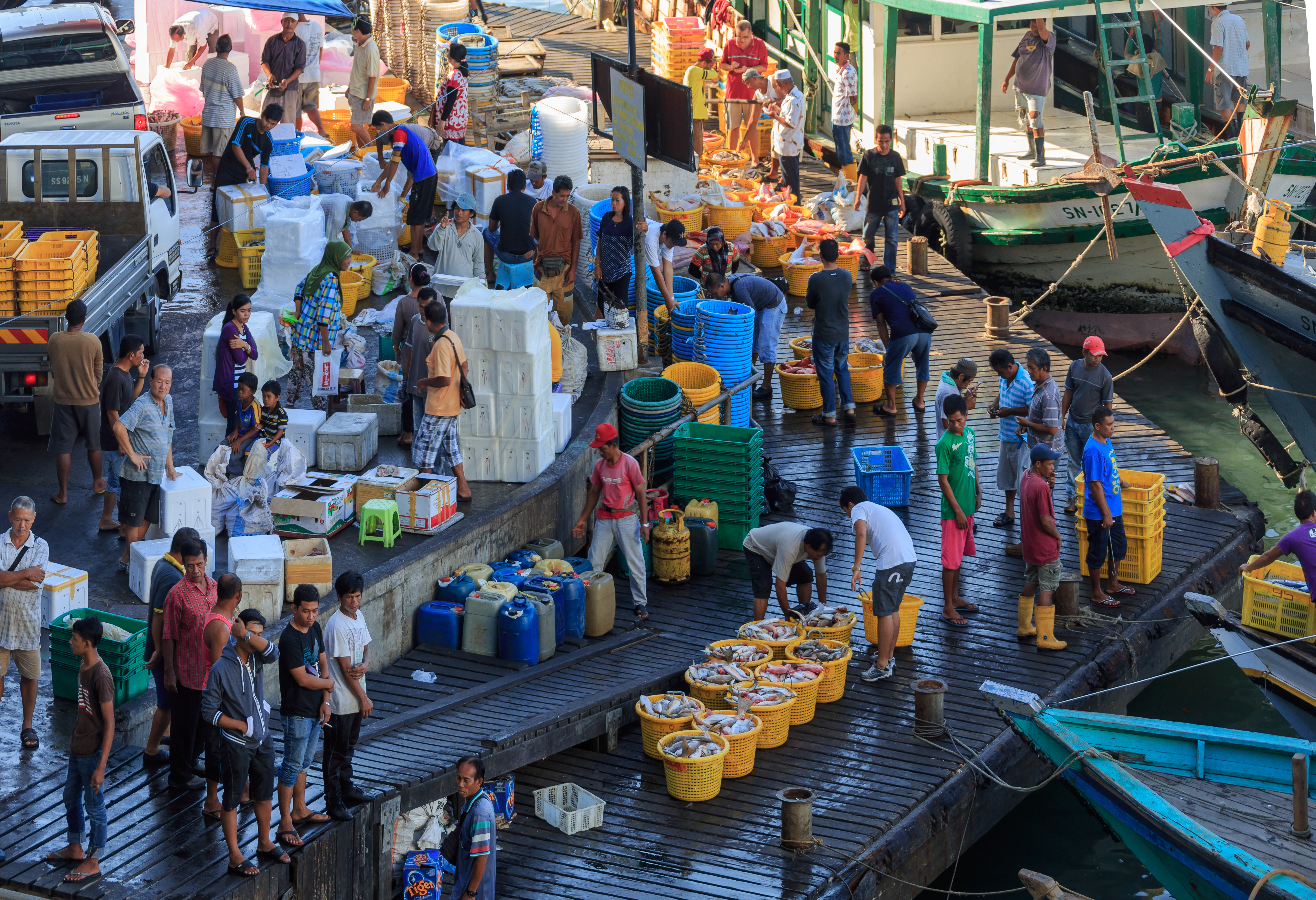 Sandakan, Sabah, Malaysia: Fishmarket in Sandakan Harbour; unloading and selling the catch in front of Pasar Ikan